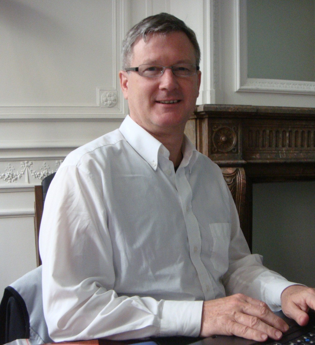 Bernhard M. Hämmerli, computer scientist, at work in a meeting of EU project Parsifal, Brussels